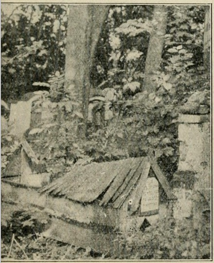 Jewish cemetery in Pinsk